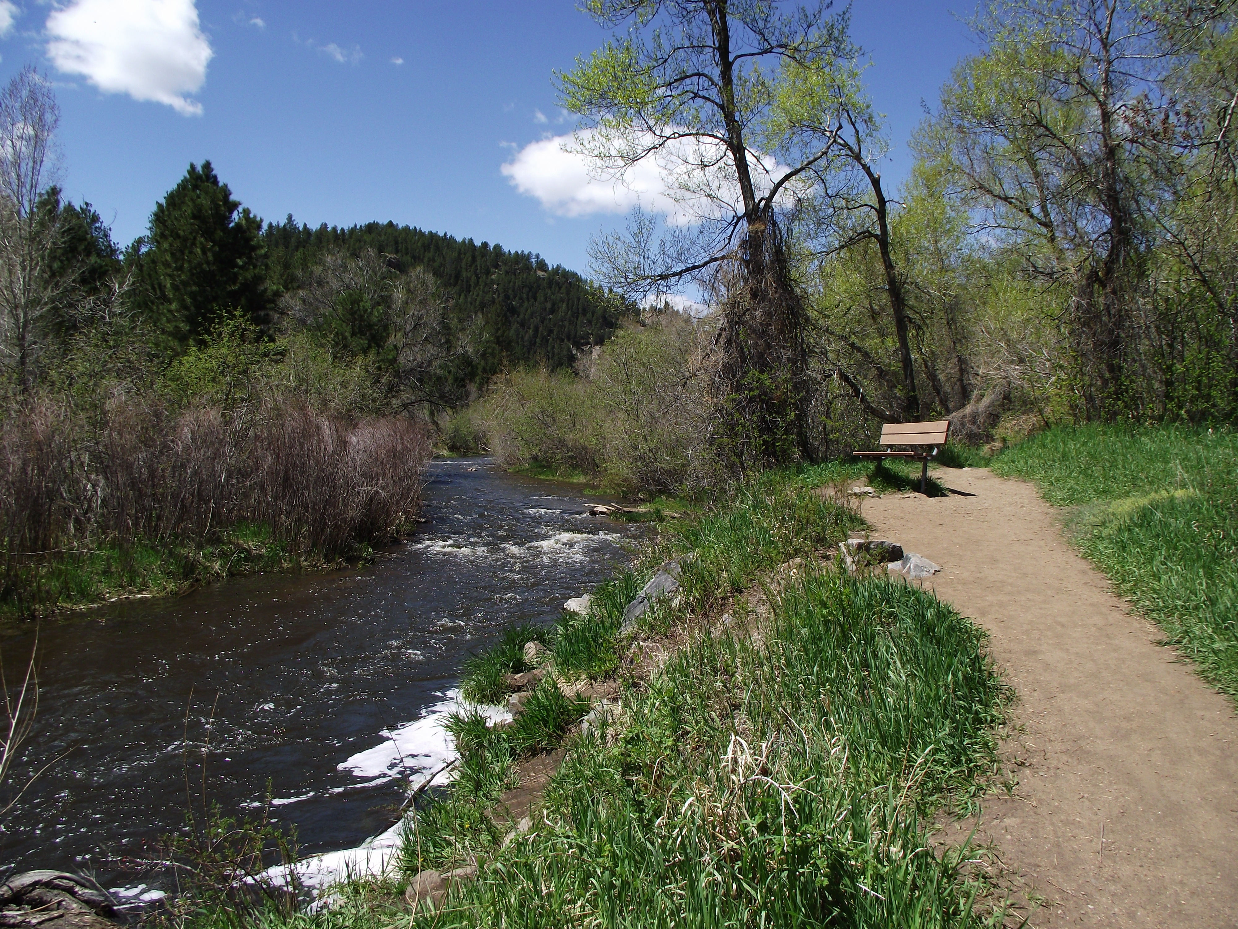 Bear Creek in Lair o' the Bear Park, Jefferson County open space.